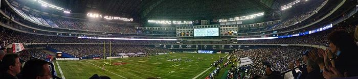 Panoramic photograph of a Toronto Argonauts' game.